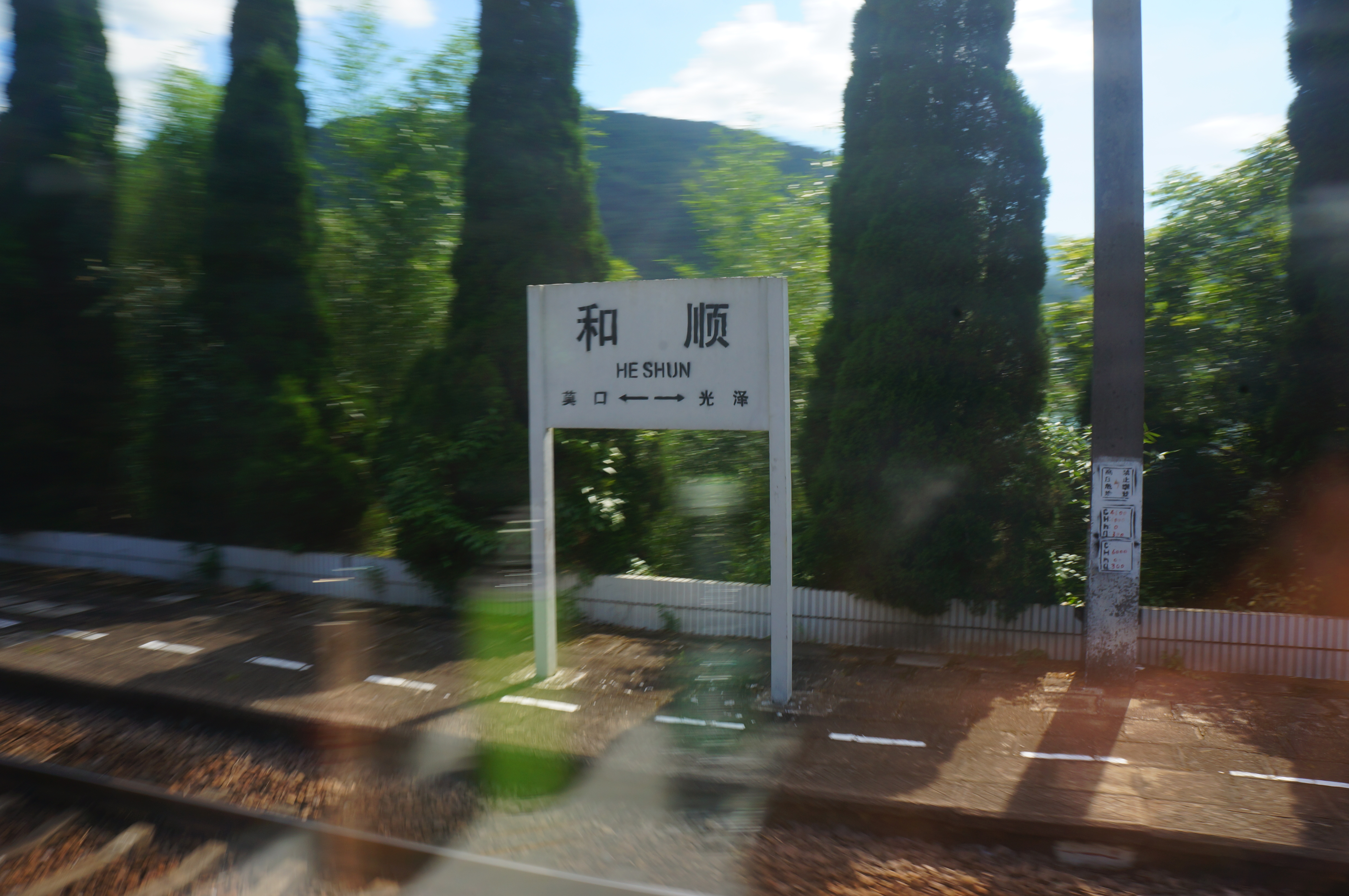 201806 Nameboard of Heshun Station